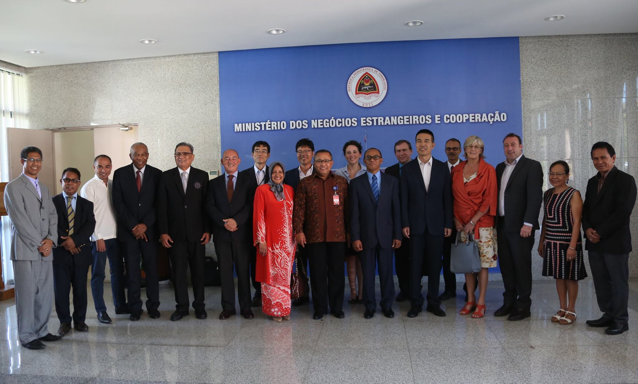 H.E. Minister for Foreign Affairs and Cooperation, Mr. Dionísio Babo Soares, conducted a diplomatic briefing to the Diplomatic corps, consular missions and international organziations accredited in Timor-Leste. The purpose of this session is to update the current of political and economic development of the country and inform the plan of the state to commemorate the 20th anniversary of Referendum and other national days. Venue: IED-MNEK Meeting Room.